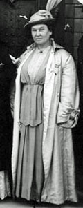 photo of Mary Long Alderson at the Montana Woman's Christian Temperance Union 1916 in Helena